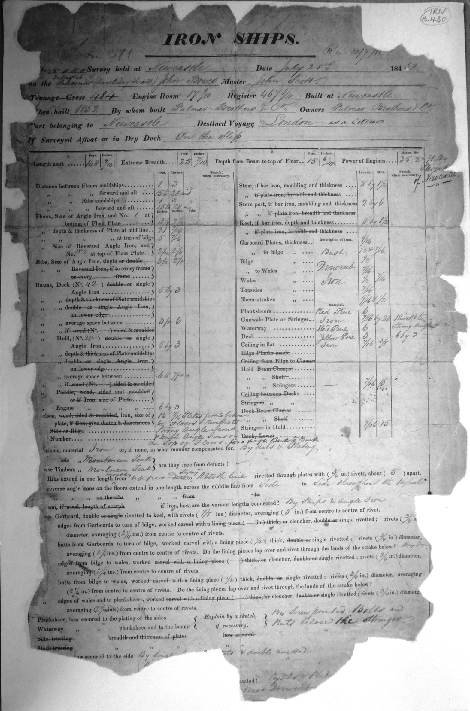 Image of the Lloyd's survey certificate for the steam collier SS John Bowes, signed and dated July 1852 by Samuel Pretious, resident surveyor, Newcastle-upon-Tyne (front).